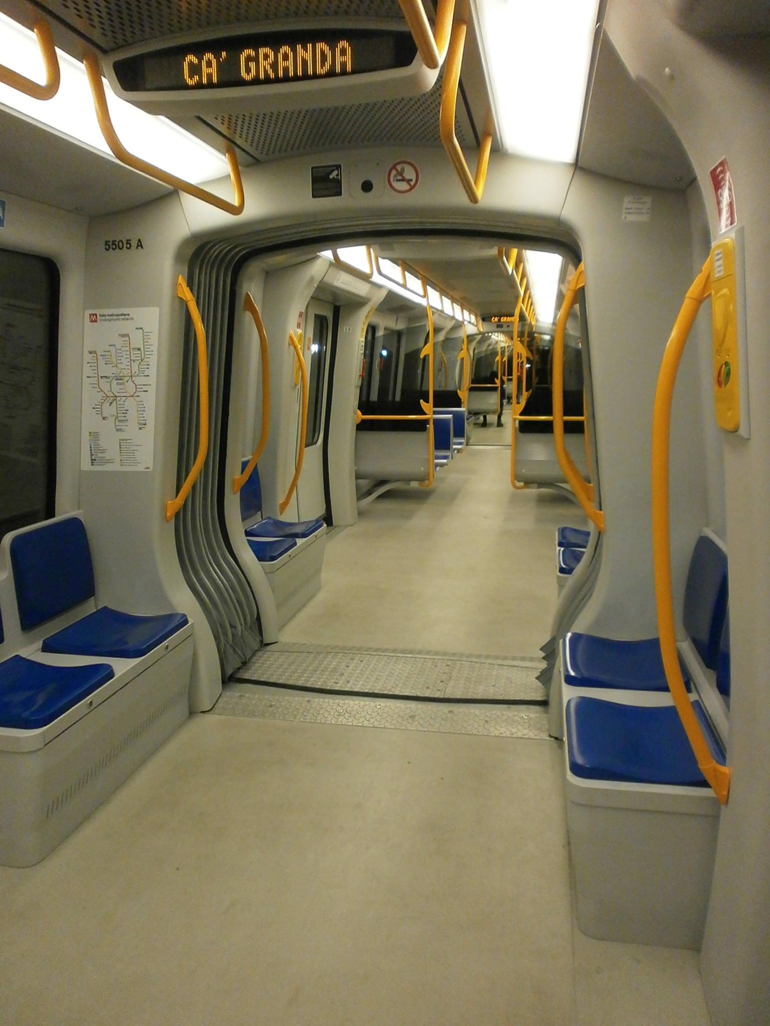 Linea M5 - lilla - Milano - treni ansaldo